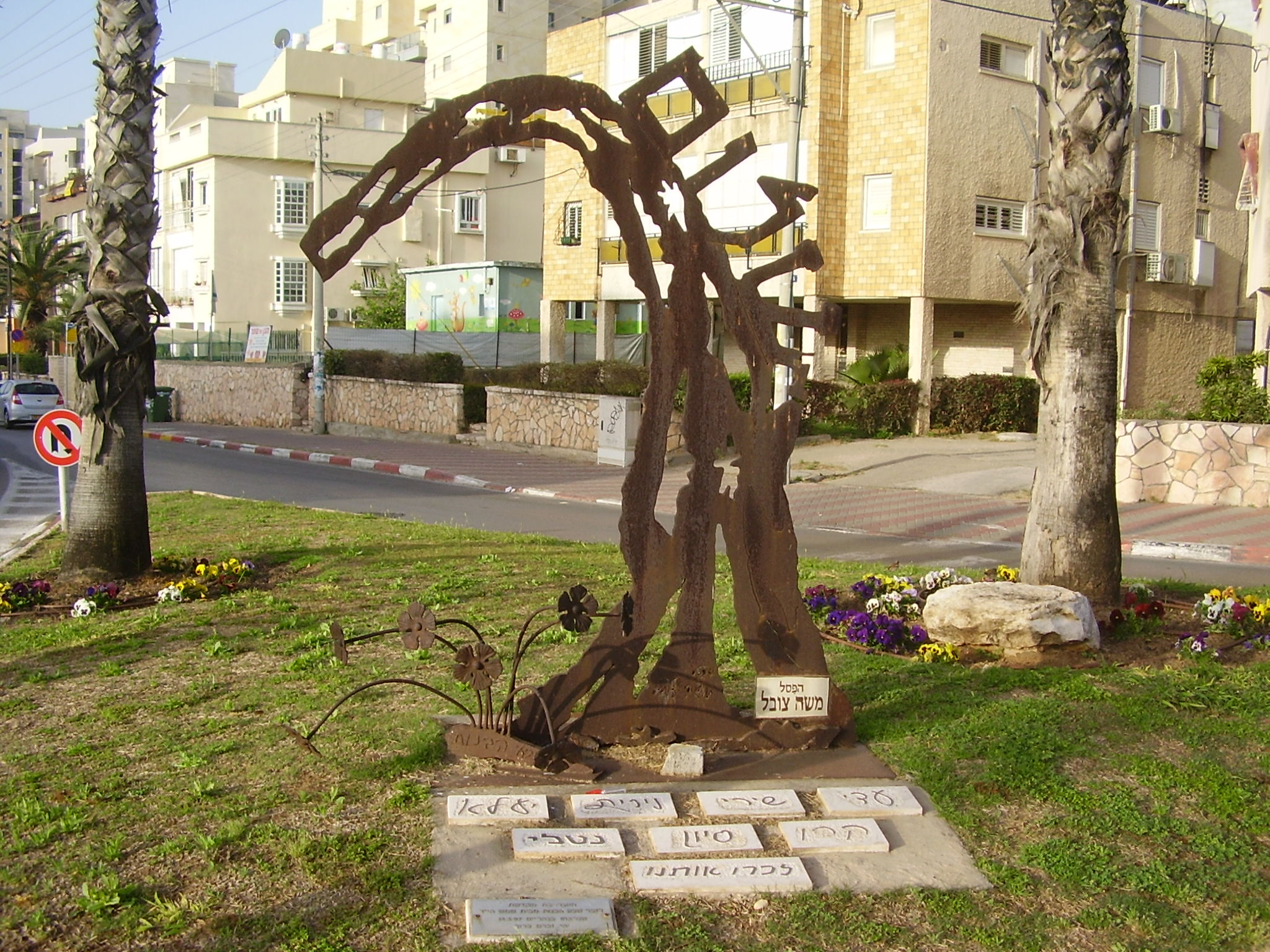 "Island of Peace" massacre memorial in Holon